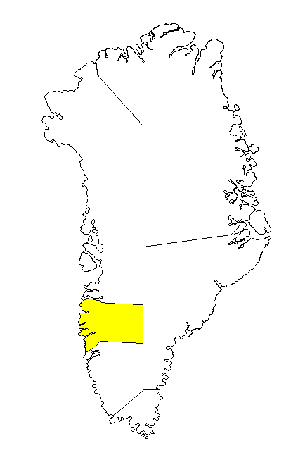 Map showing location of the Qeqqata Kommunia (Qeqqata municipality) in Greenland